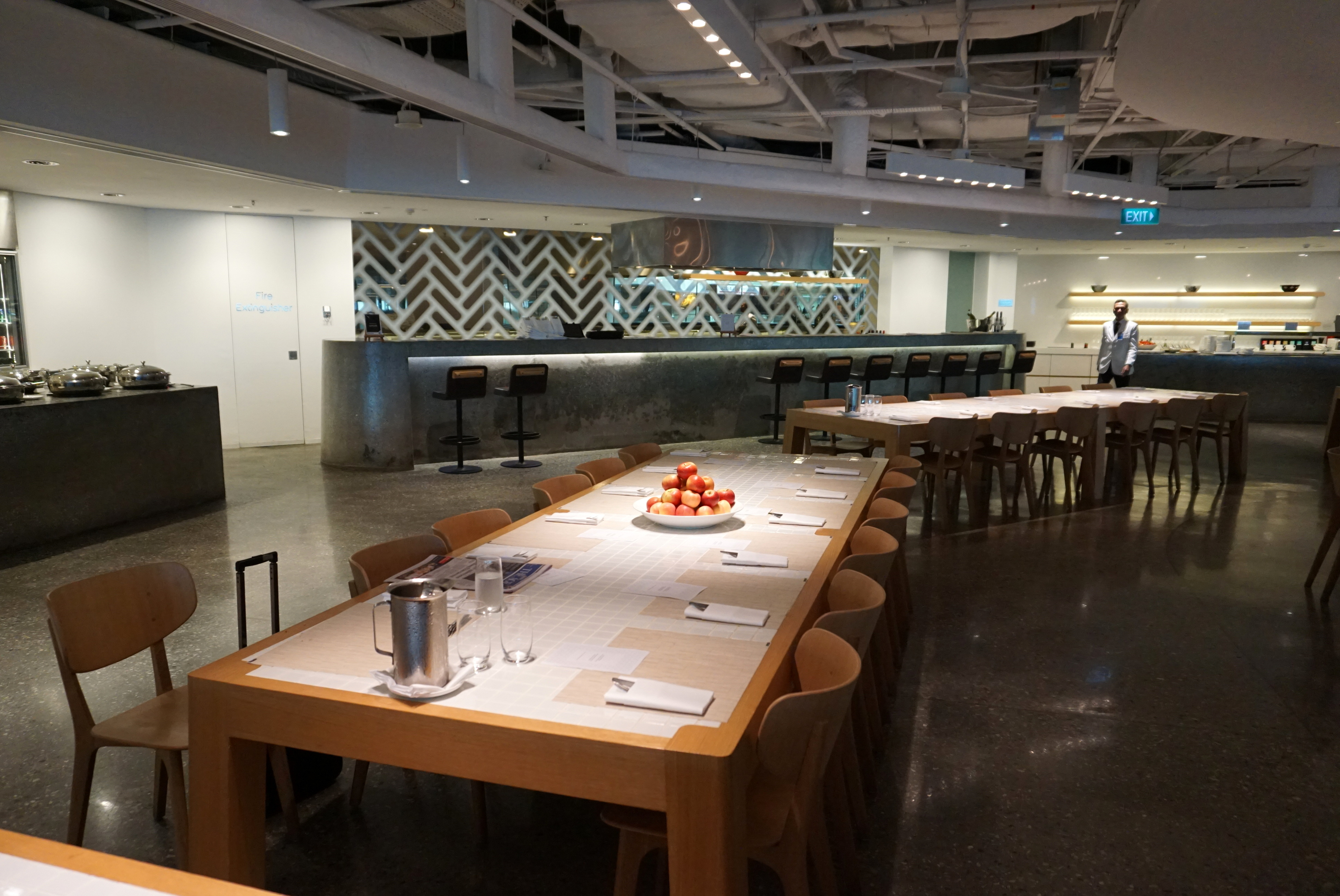 The Qantas Singapore Lounge in Terminal 1 of Singapore Changi Airport.